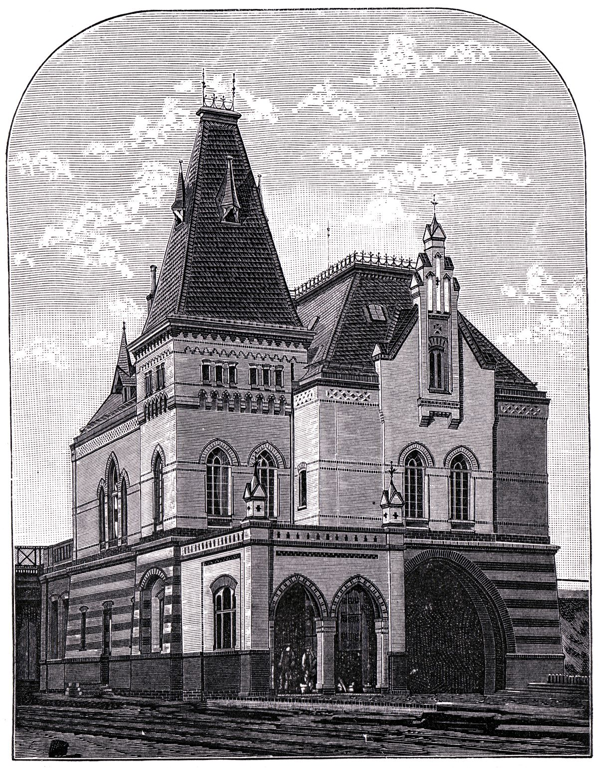 Berlin - railway station Beusselstraße, view around 1896